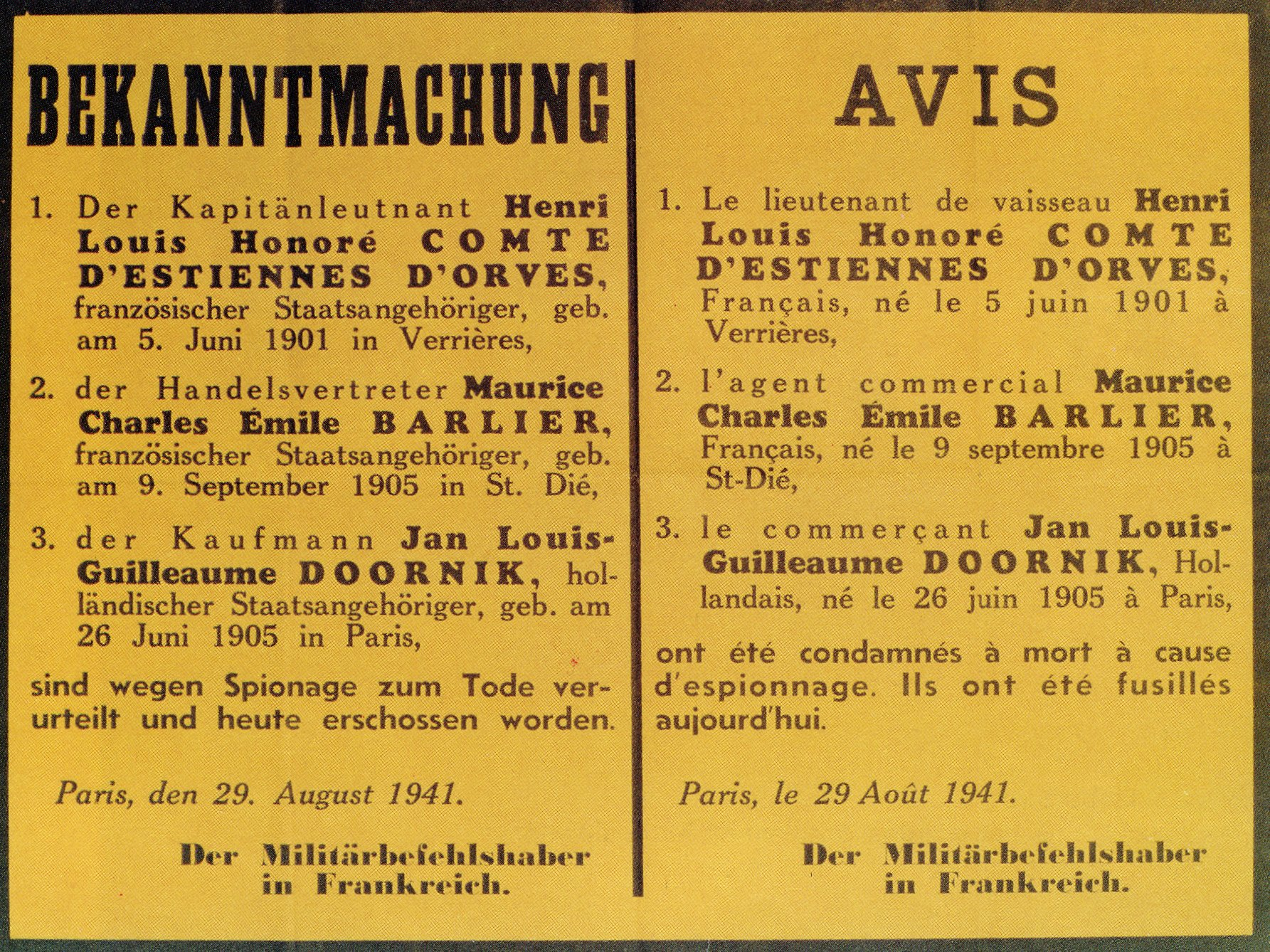 Proclamation of the execution of resistants during World War II.